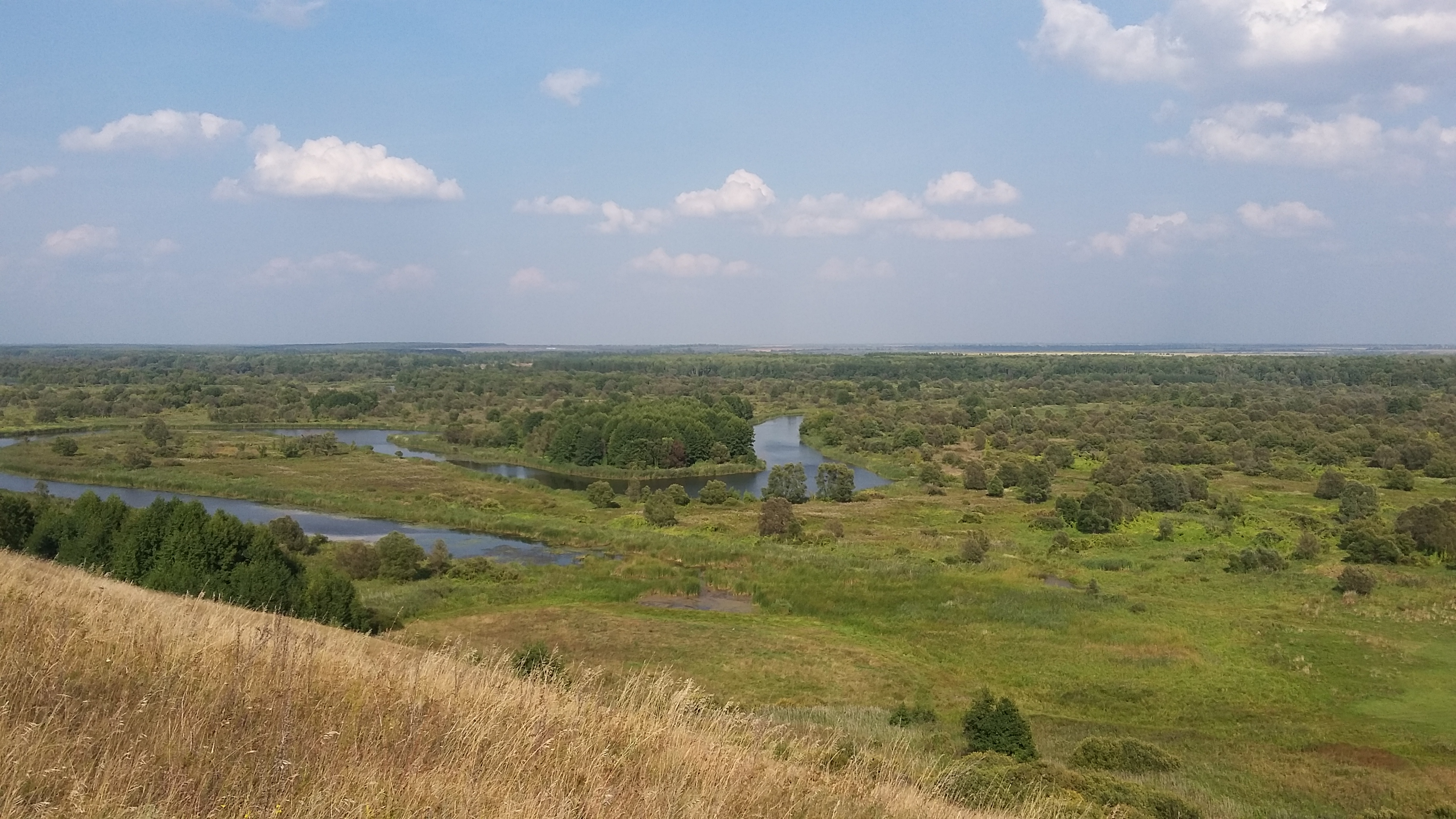 Voronina Nature Reserve. View from the Barskaya hill.